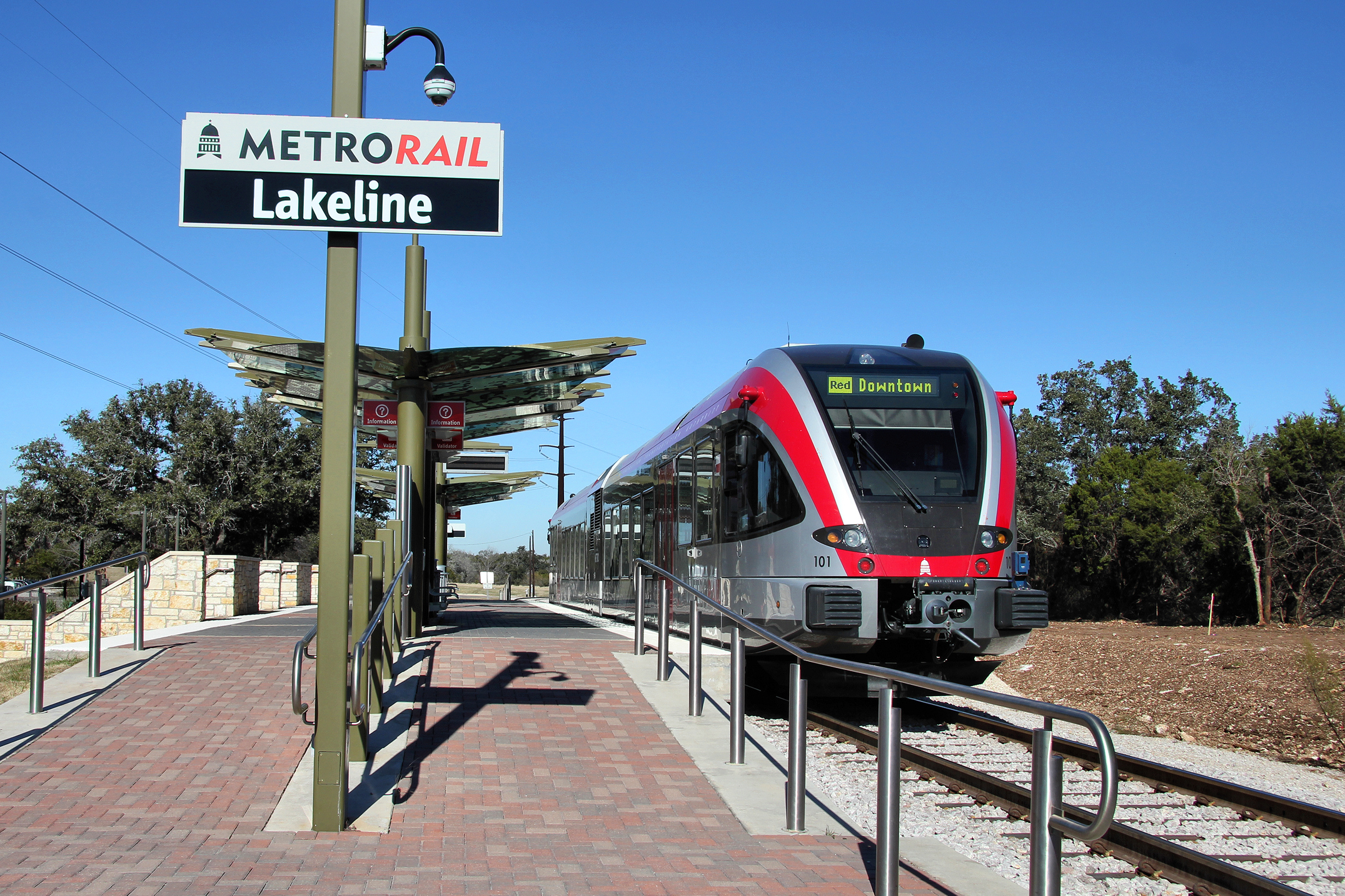 Lakeline Capital MetroRail commuter rail station in Austin, Texas, United States.